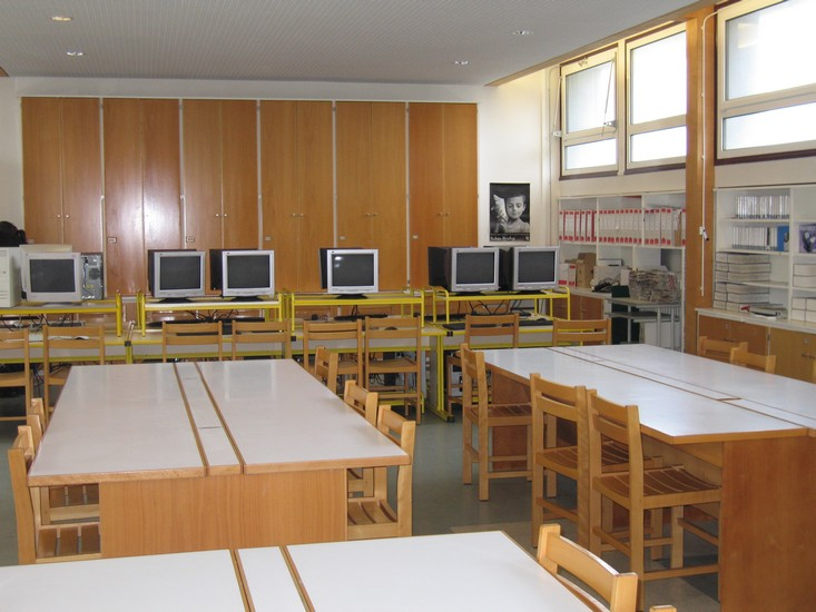 This is our PC room